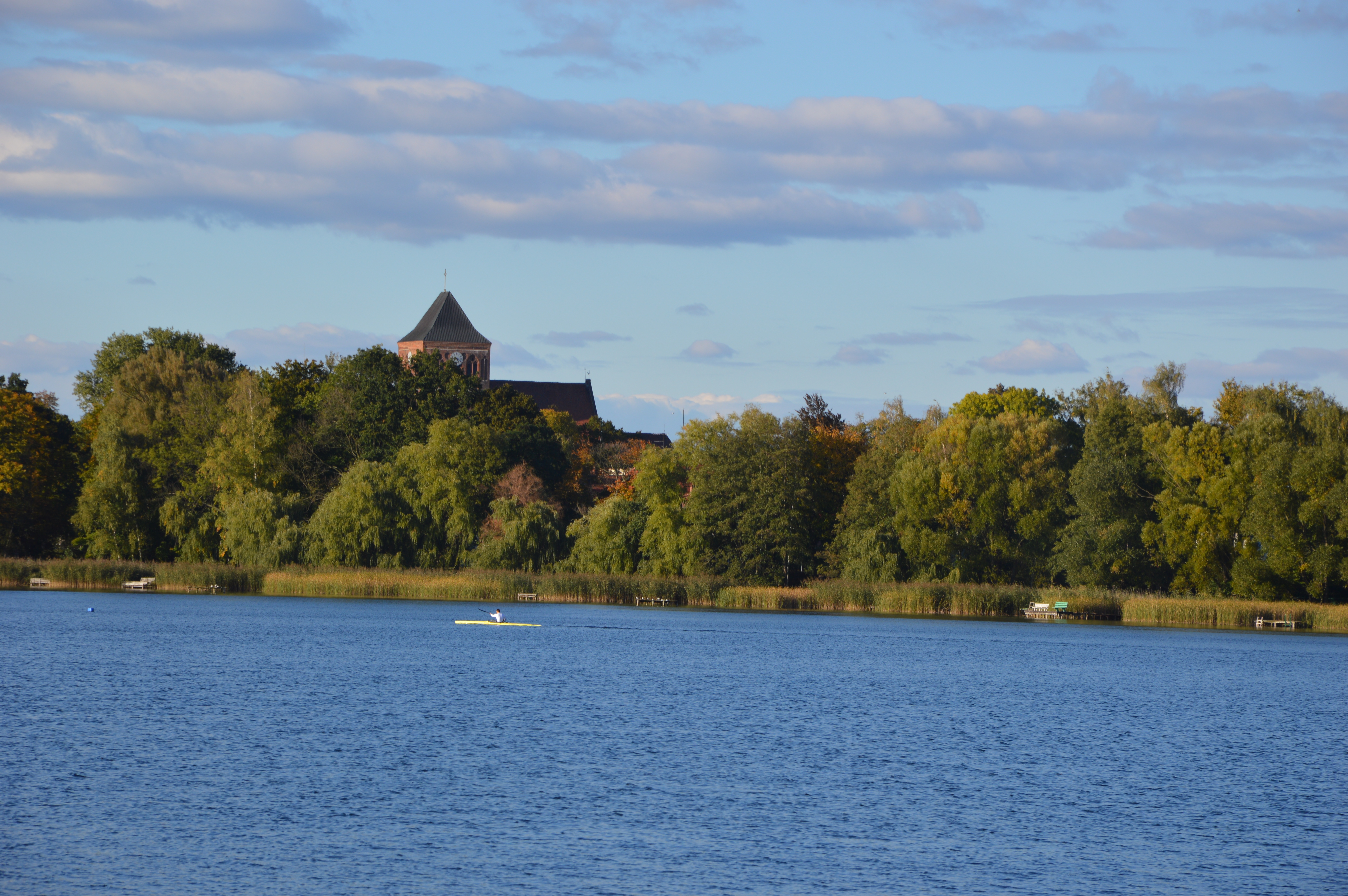 CHOSZCZNO